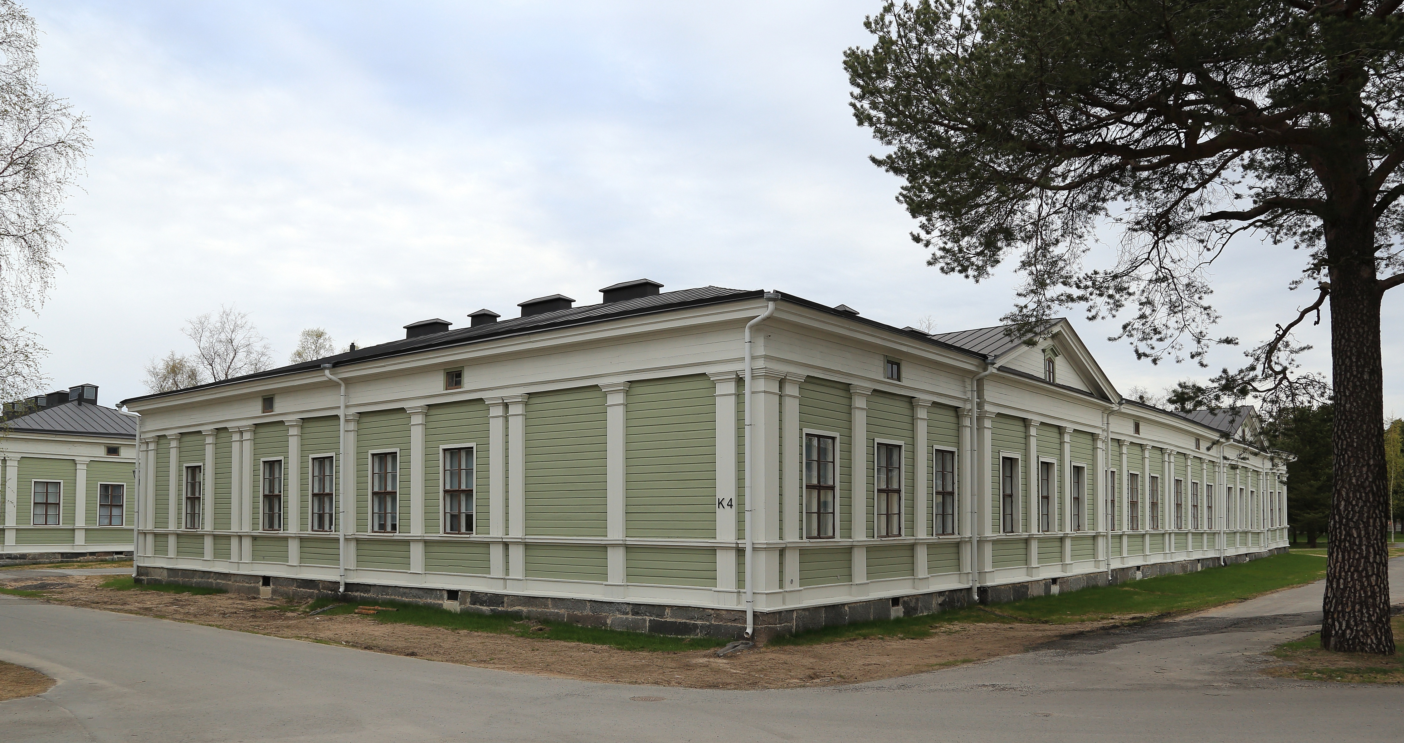 The Pärmi House is a former sharp shooter batallion barrack that is used by Luovi vocational school. The former barrack of the 2nd company was built in 1881.